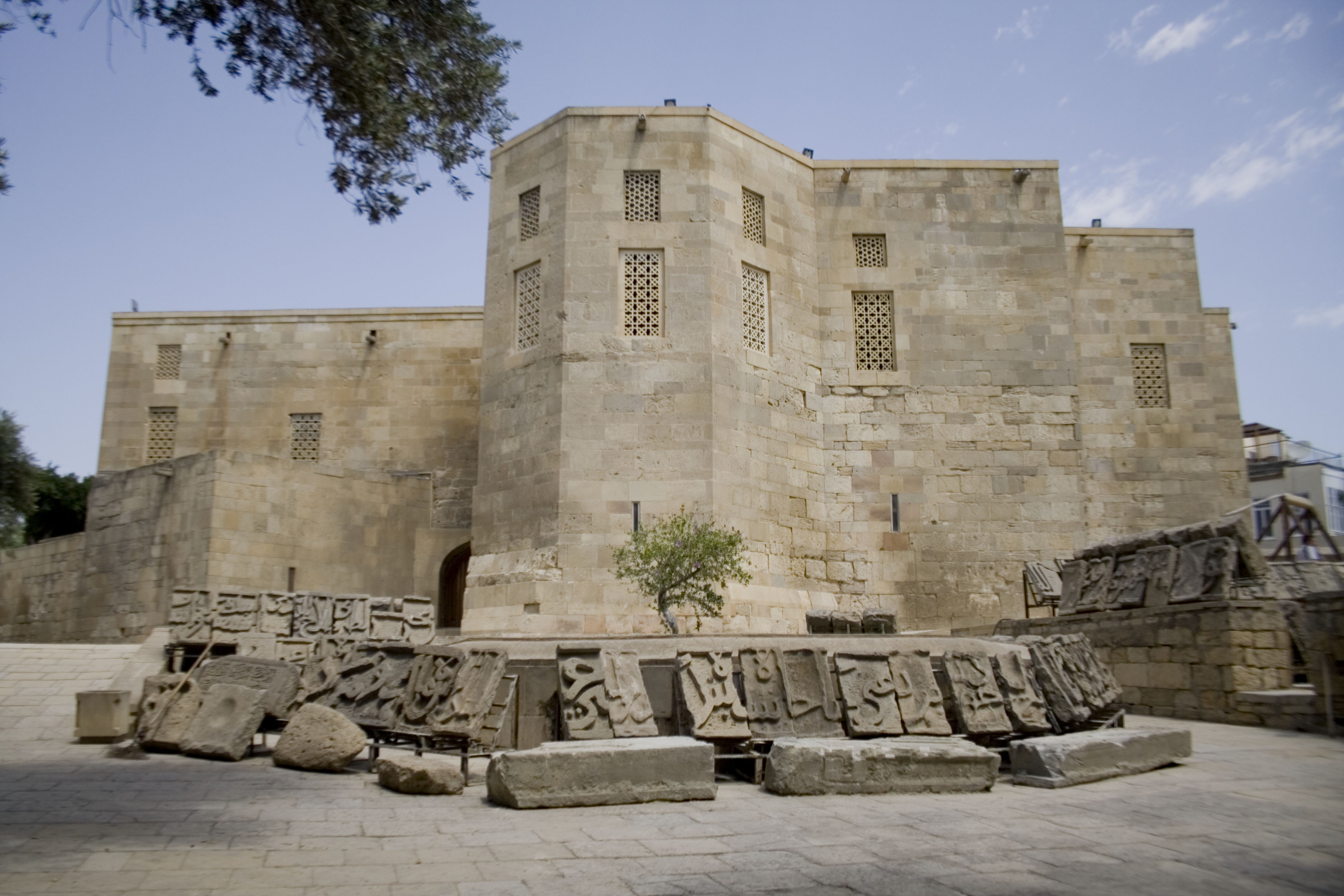 A view of the Palace of the Shirvanshahs in the old town of Baku, Azerbaijan